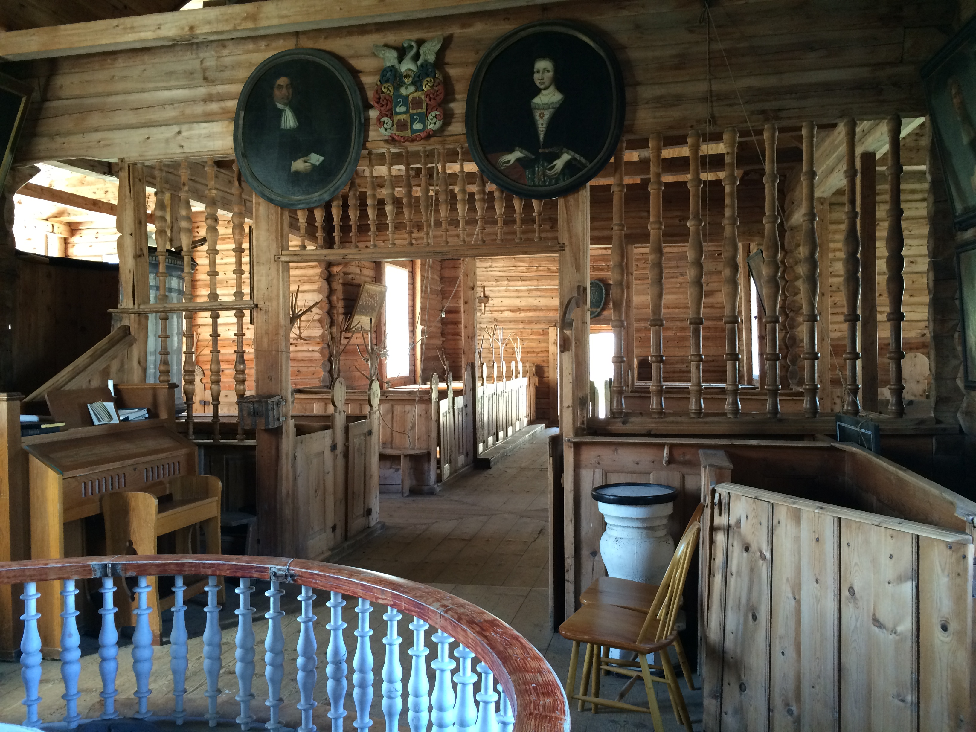 Interior of Olden Old Church in Olden, Stryn Municipality, Sogn og Fjordane, Norway. 28th April, 2015.